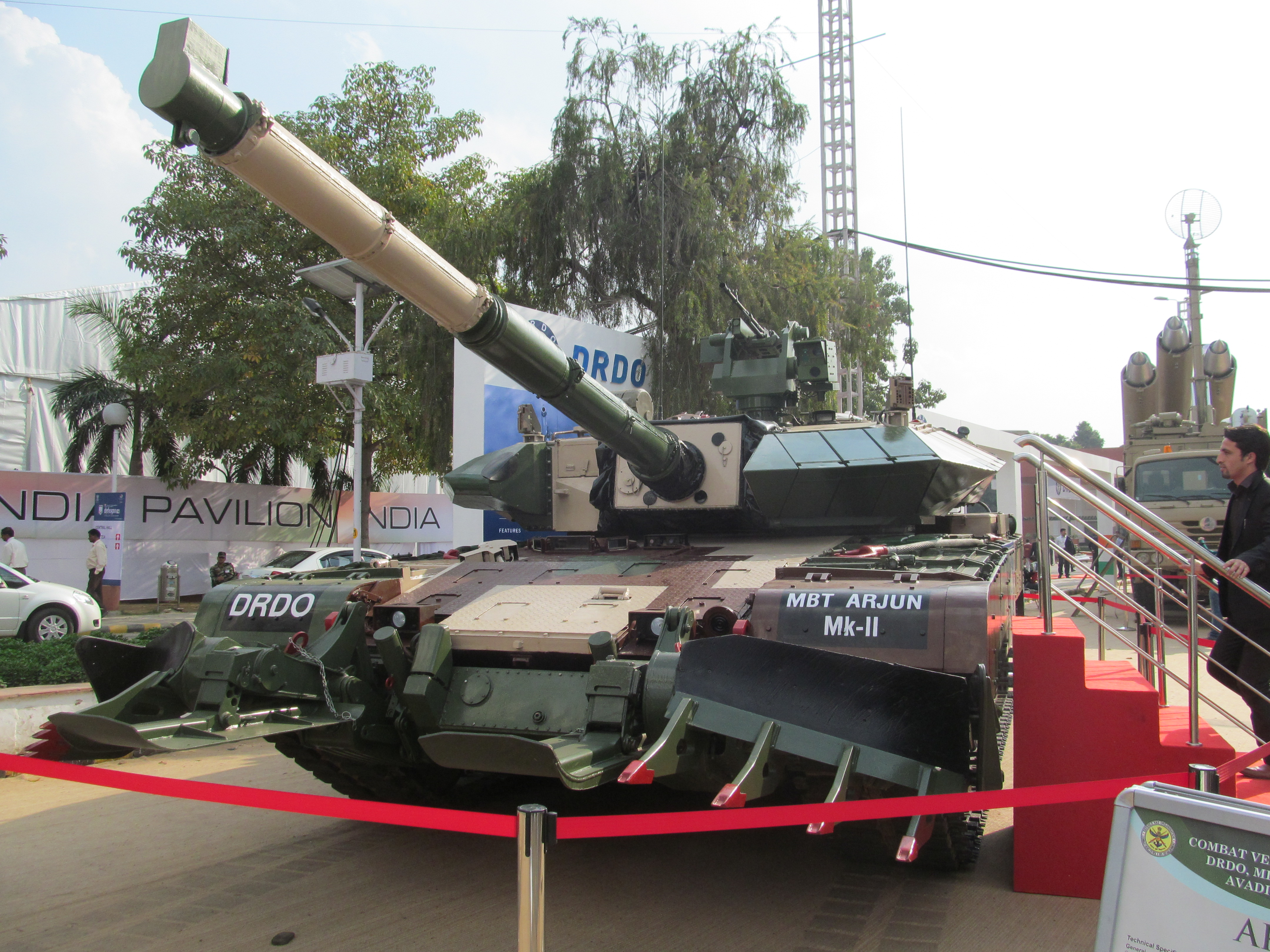 Arjun Mk II front view, during DefExpo 2014, New Delhi.